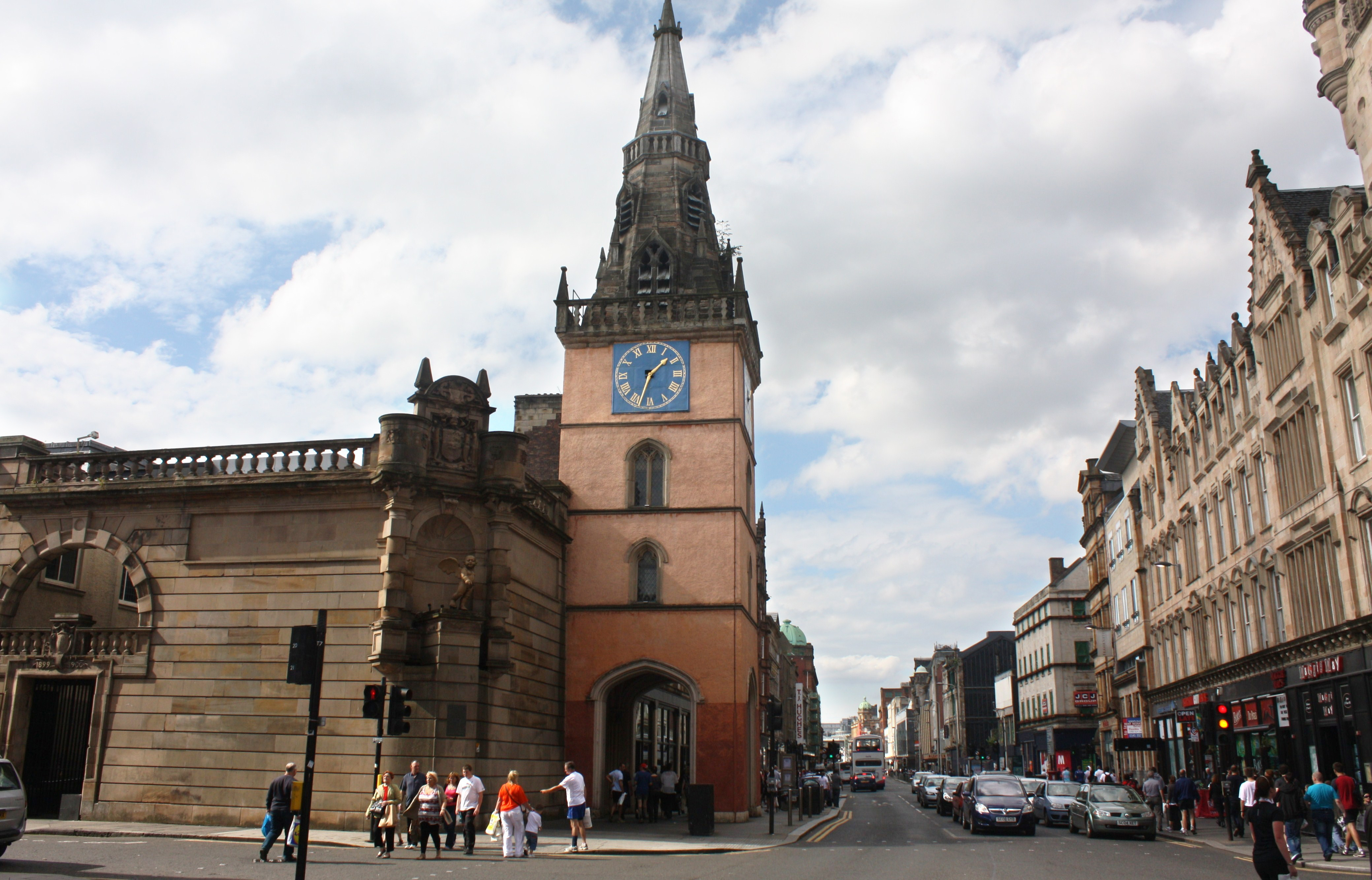 Tron Steeple, looking down Trongate. Merchant City, Glasgow, Scotland.